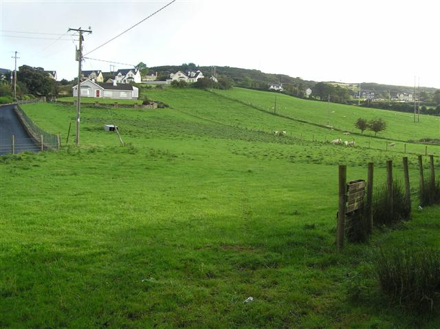 Tooban Townland Looking north north-east towards Tooban Upper